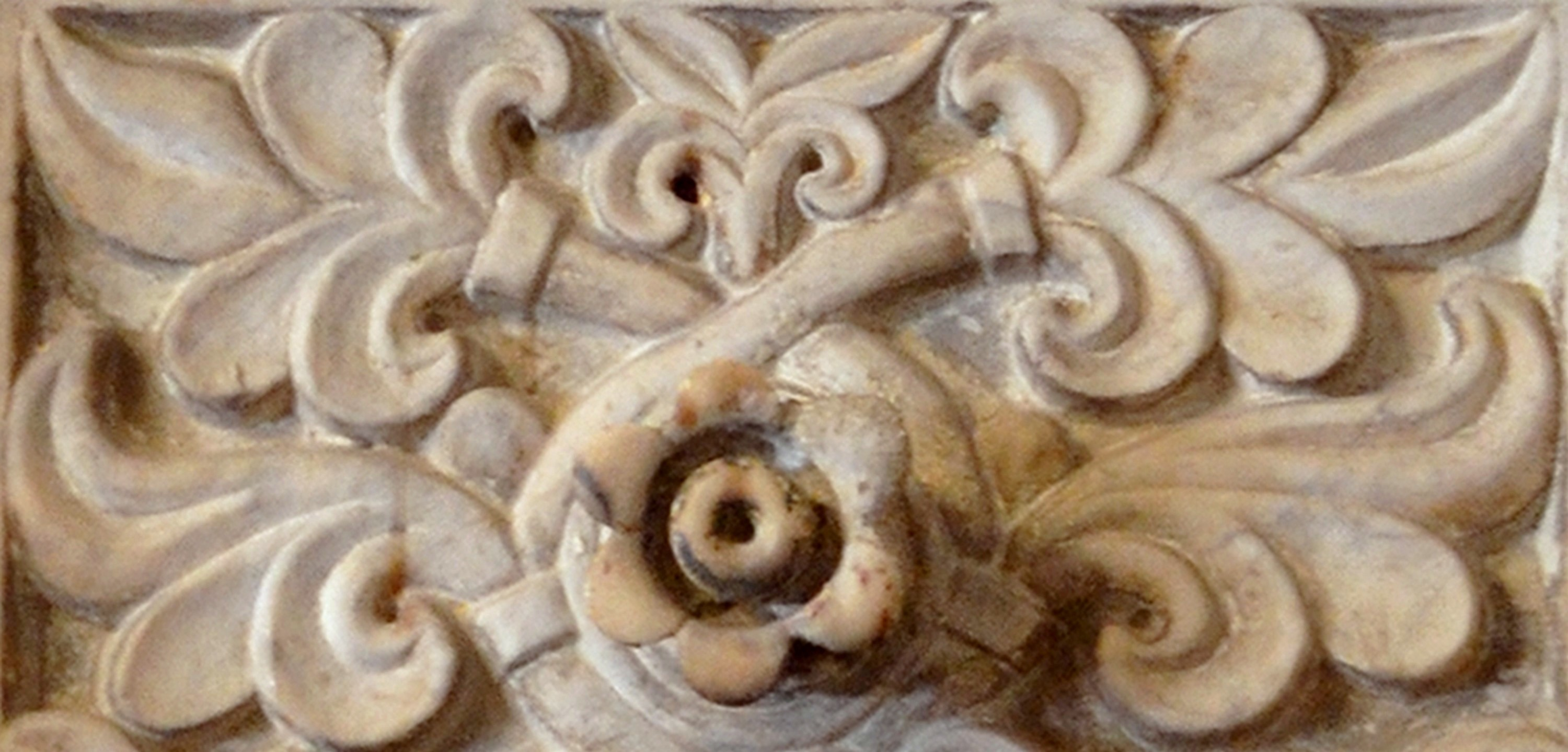 Details of a carved marble panel of the mihrab of the Great Mosque of Kairouan, in Tunisia. The decoration of the mihrab dates from the 9th century.